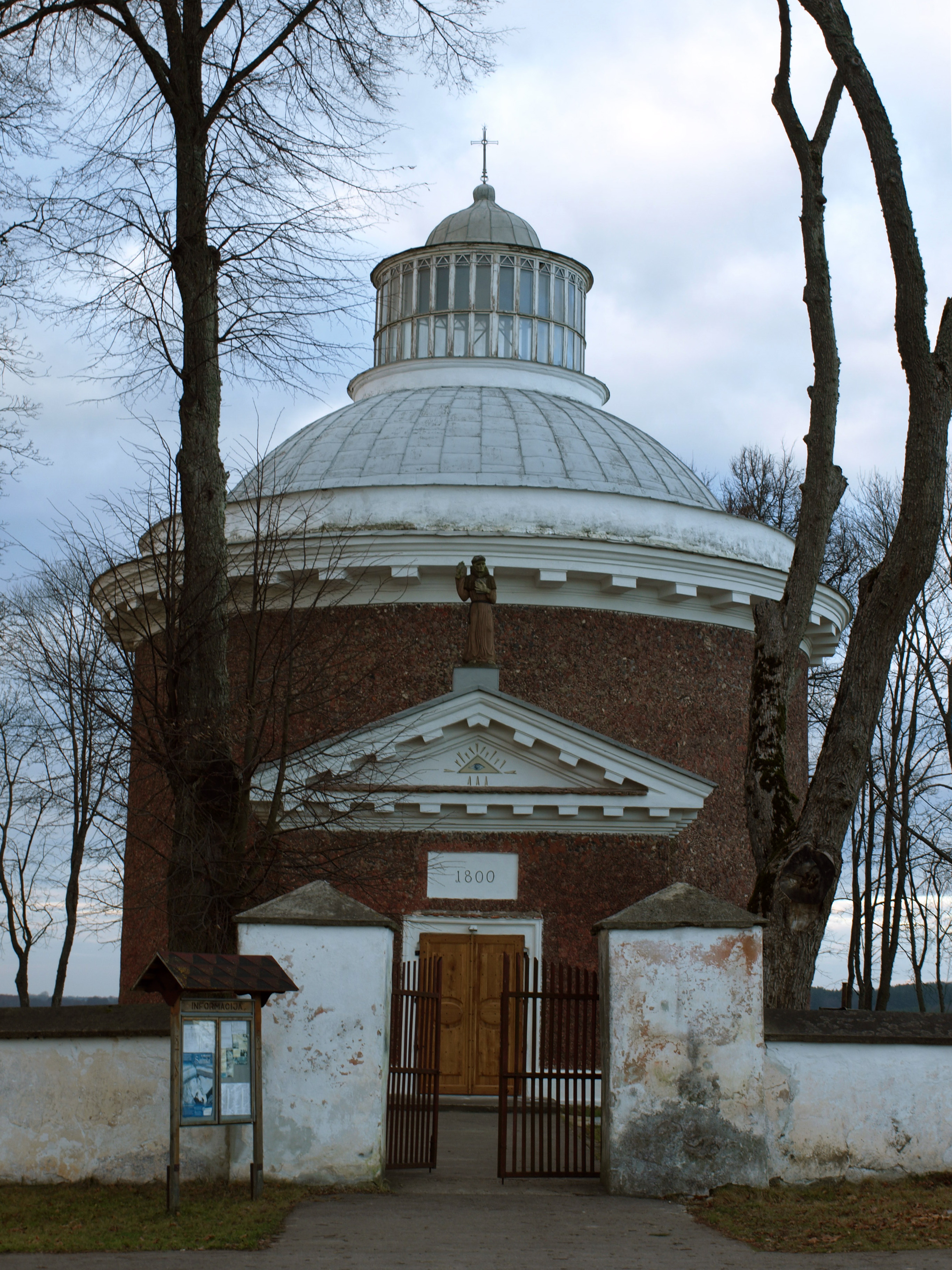 Kalviai church, Kaišiadorys district